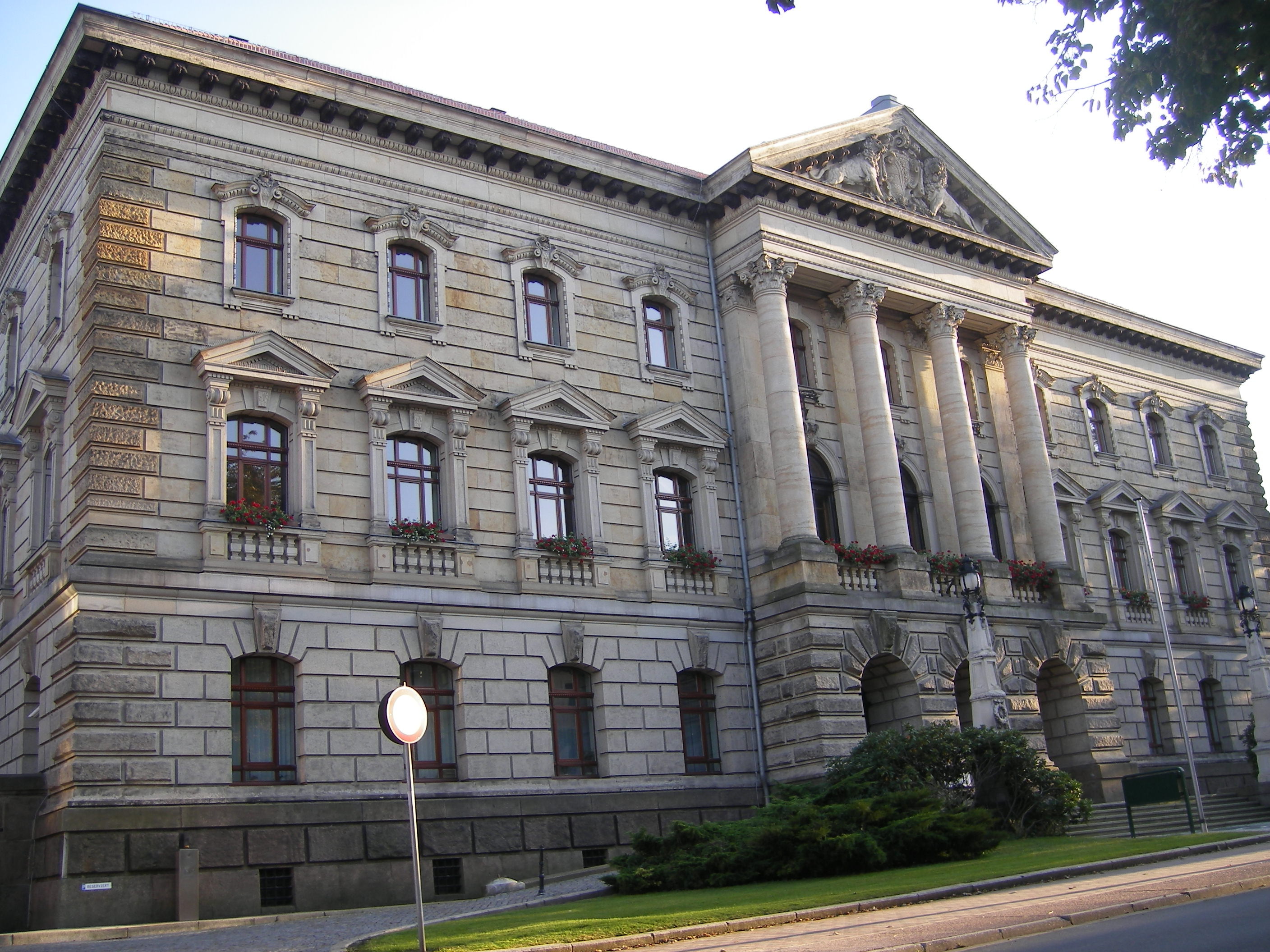 District offfice of Altenburger Land in Altenburg/Thuringia